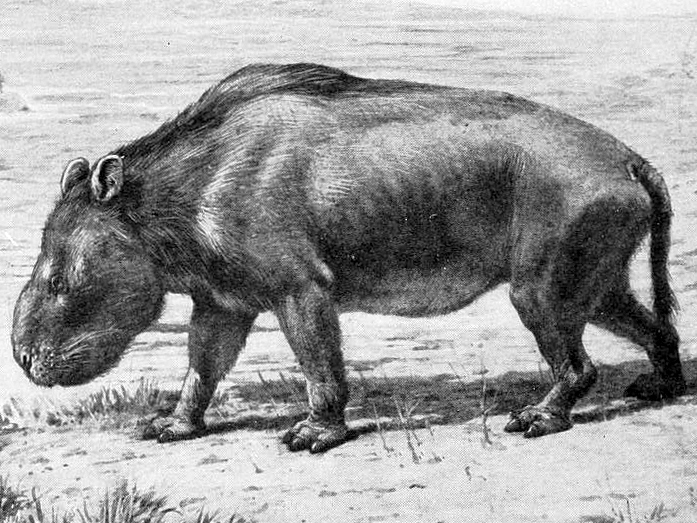 Life restoration of Nesodon imbricatus from W.B. Scott's "A History of Land Mammals in the Western Hemisphere." New York: The Macmillan Company.